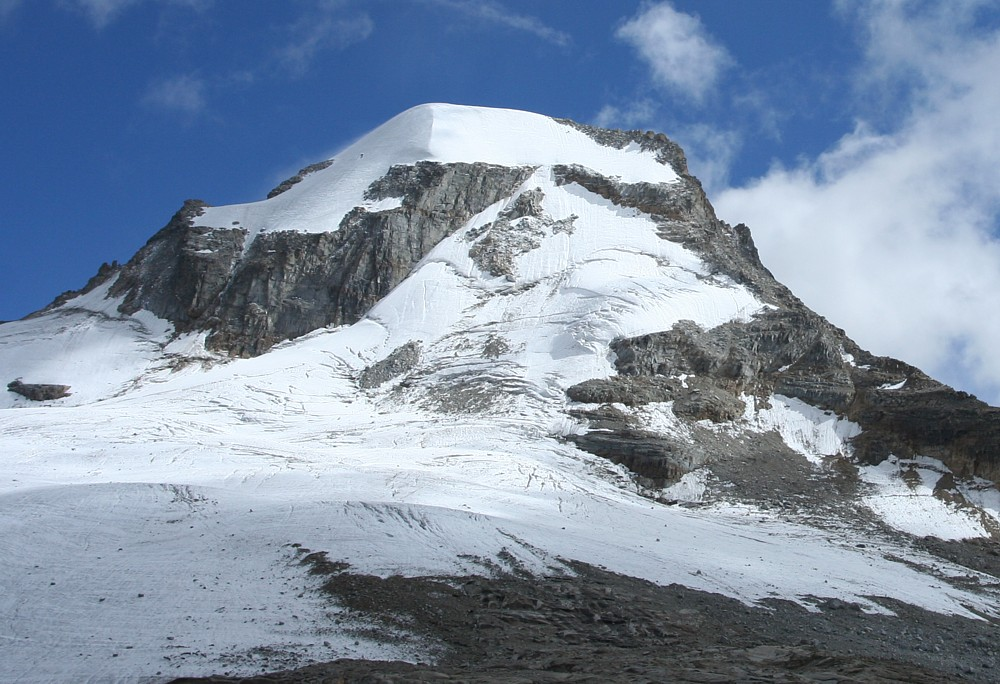 Ciarforon (3642 metres) and Monciar (3544 metres), Graian Alps, Italy.